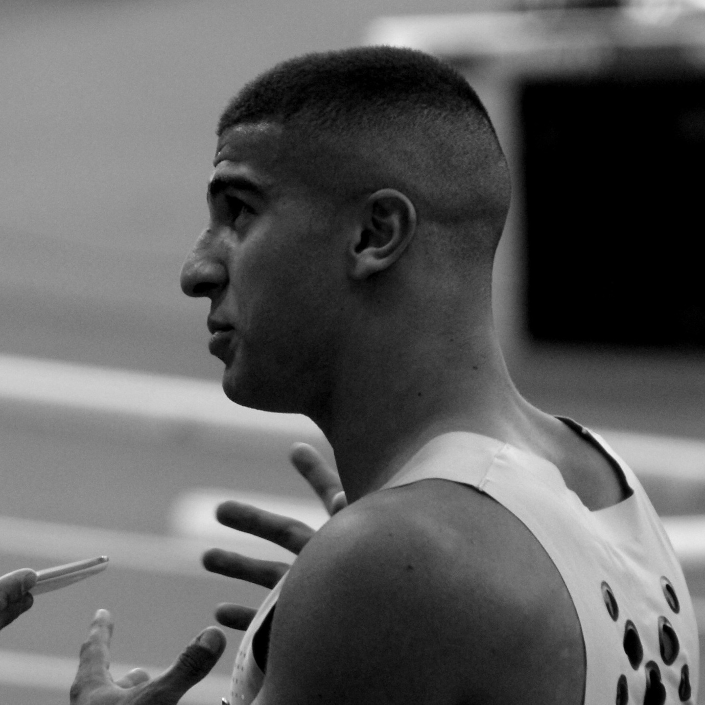 crop from photo of Adam Gemili being interviewed at the Sainsbury's Anniversary Games in 2013